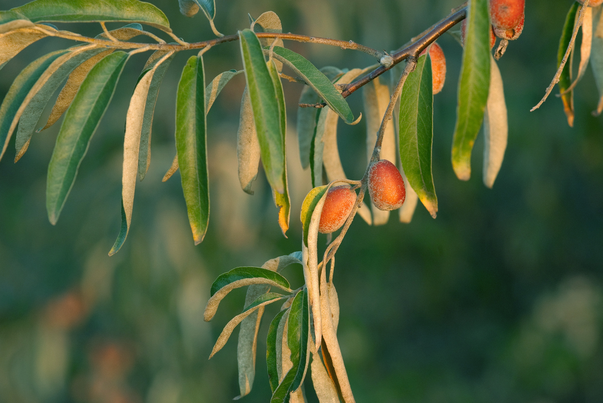 Fruit of Elaeagnus angustifolia